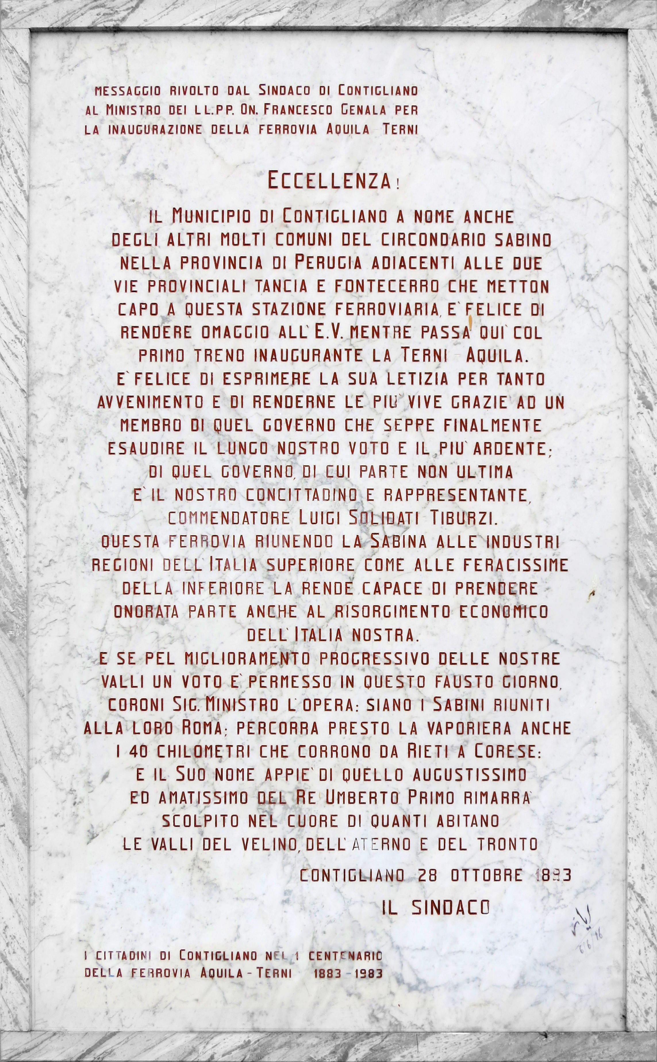 Plate placed in 1983 in the Contigliano train station with an inscription quoting the speech made by the mayor of Contigliano during the inauguration of the Terni-Rieti-L'Aquila railway in 1883